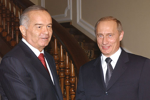 Uzbek President Islom Karimov and Russian President Vladimir Putin